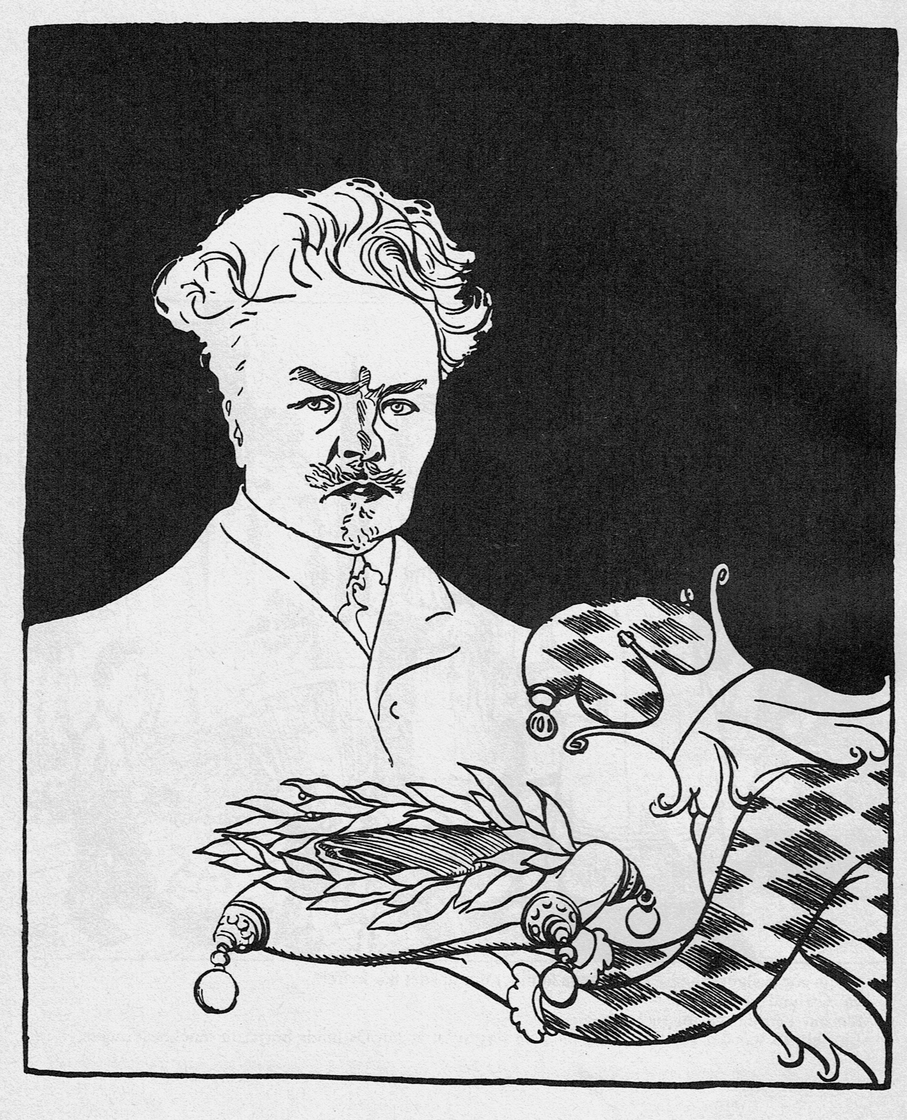 Caricature depicting the Swedish writer August Strindberg